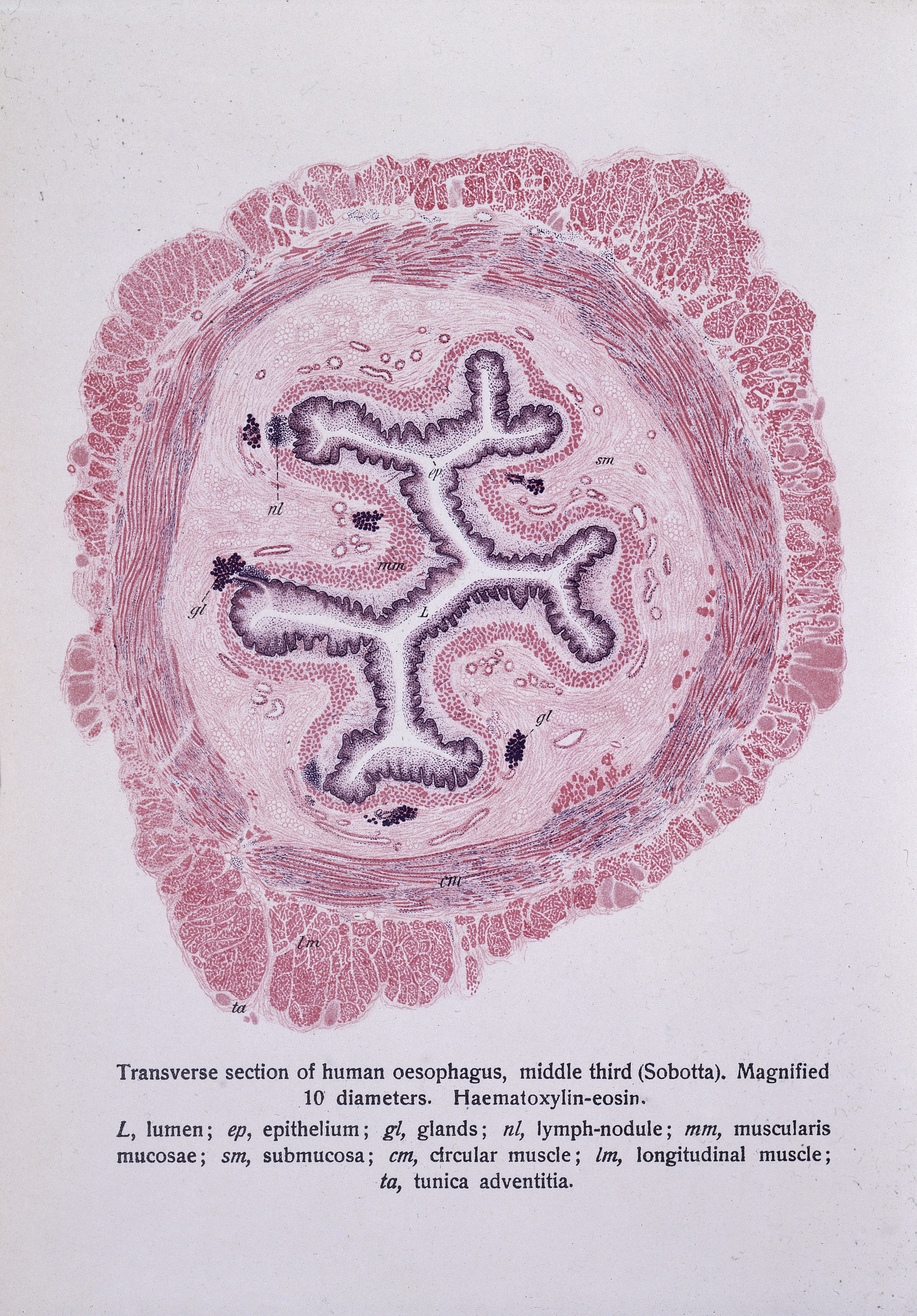 Transverse section of human oesophagus, middle third (Sabotta). Magnified 10 diameters. Wellcome Images